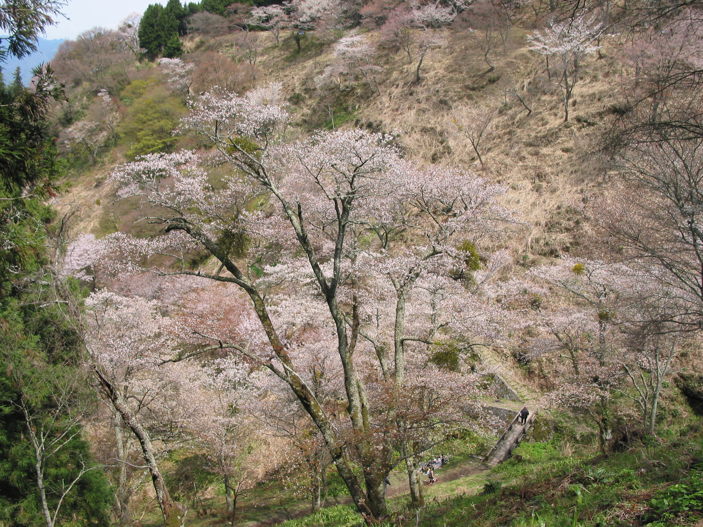 Cherry blossoms of Yoshinoyama. Place:Yoshinoyama Yoshino Yoshino District, Nara Pref., Japan.